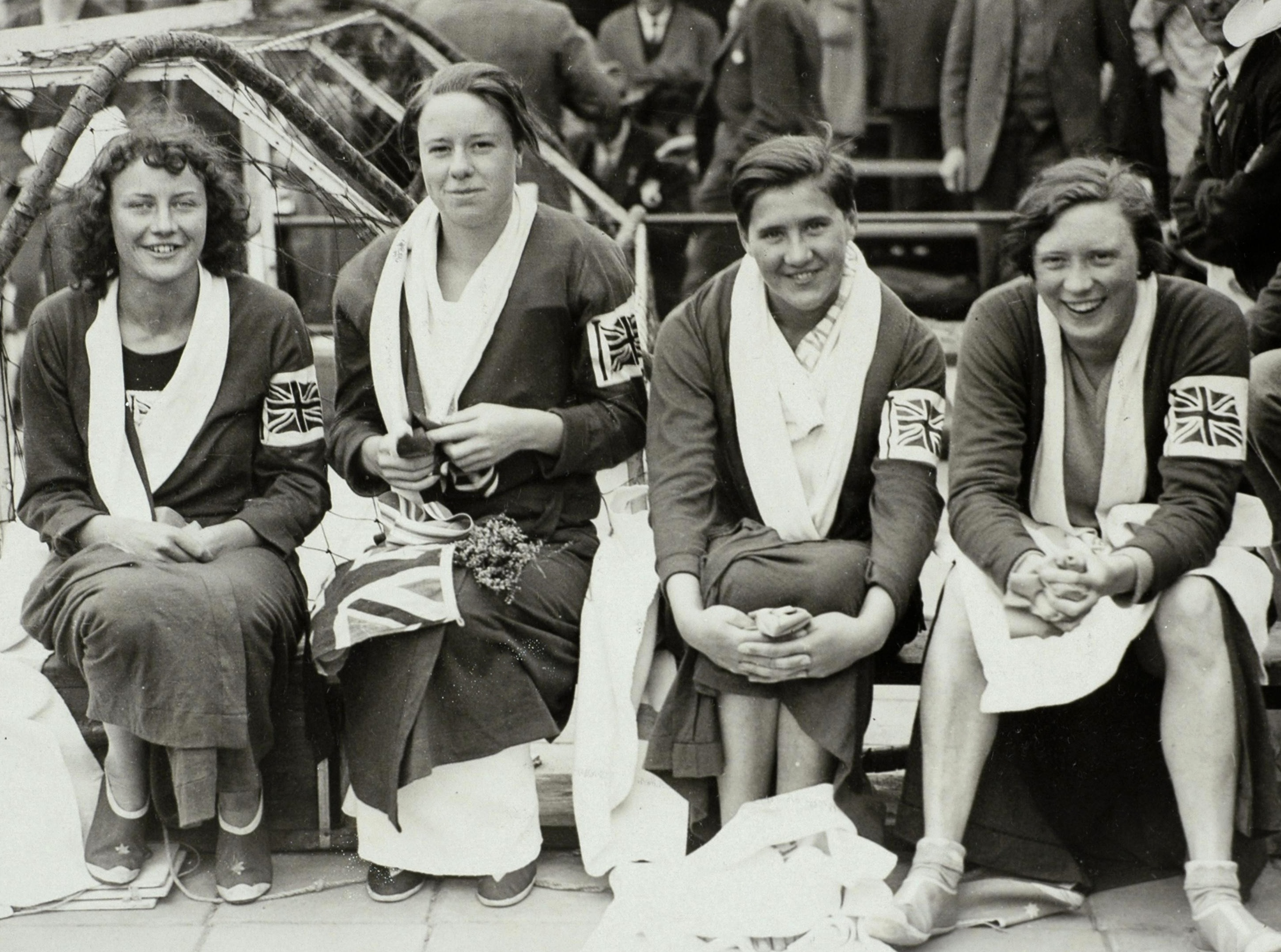 Olympic Games Amsterdam 1928, swimming, women: British team in 4 x 100 m, left to right: Joyce Cooper, Ellen King, Cissie Stewart, Iris Vera Tanner